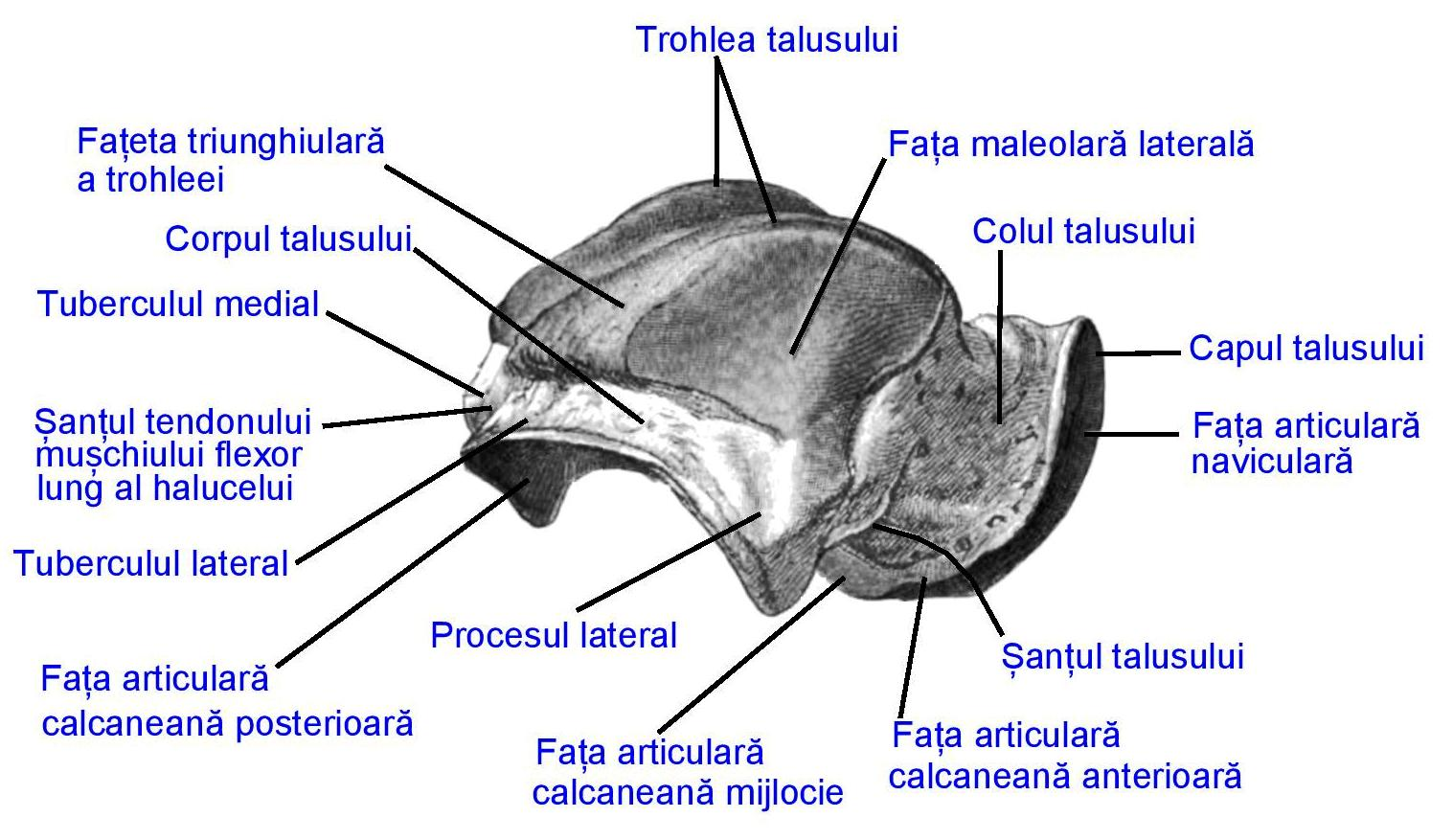 Talus, lateral face